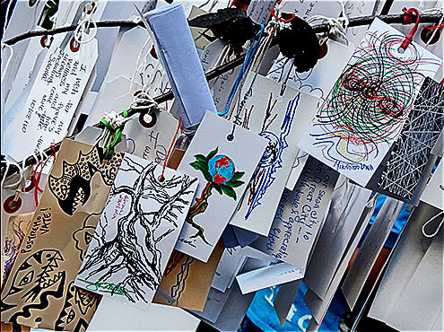 Contributions of the associate members of IMMAGINE&POESIA to Yoko Ono's Wish Tree at the Museum of Modern Art, New York